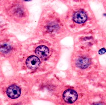 Liver section seen under a light microscope. Large magnification shows several liver cells with nuclei and nucleoli. The cell cytoplasm, stained pink, is also seen. Stains: hematoxylin & eosin.